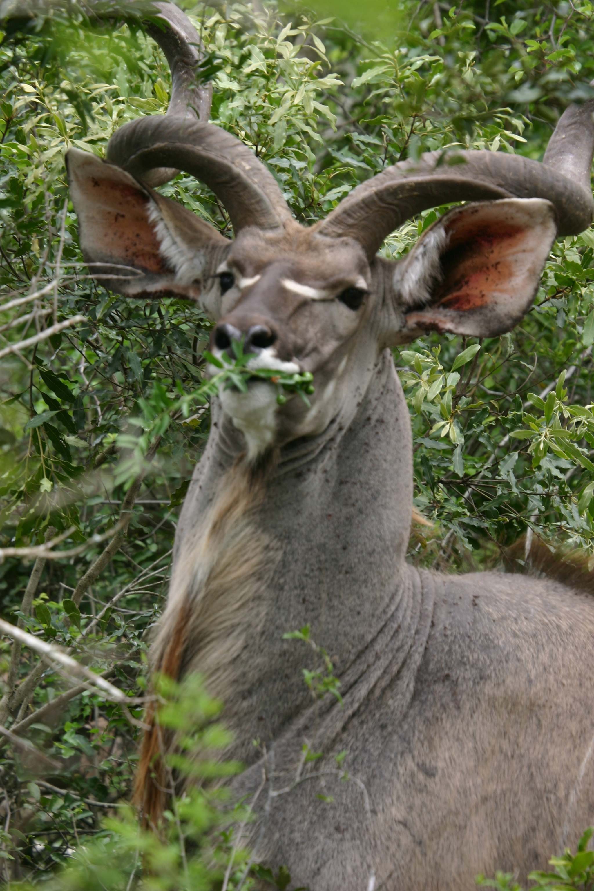 A large Kudu bull browsing